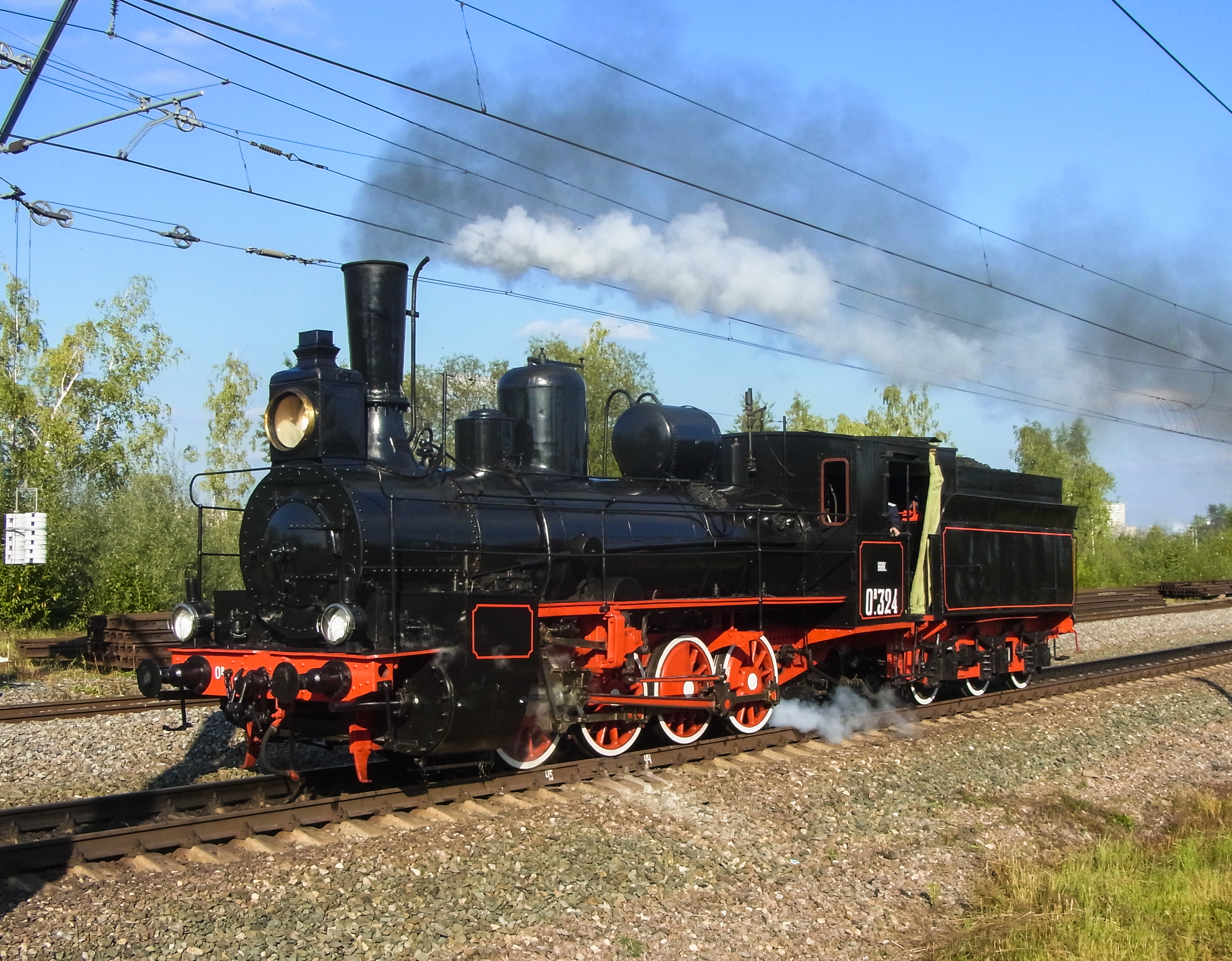 Steam locomotive Ov 324 at train parade during Expo 1520 railway exhibition in 2017 on railway test circuit in Shcherbinka, Moscow, Russia